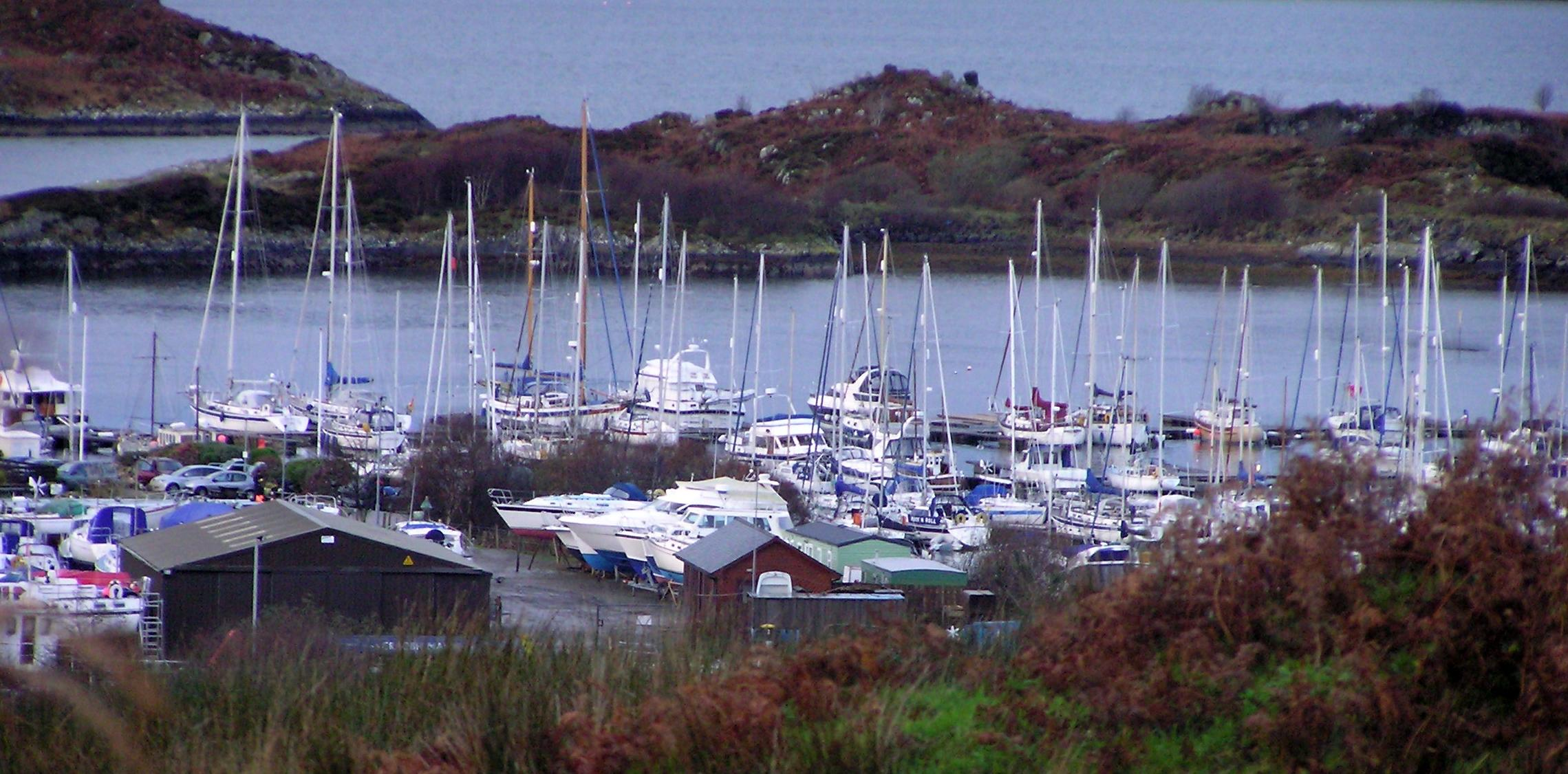 Craobh Haven Marina, Argyll & Bute, Scotland